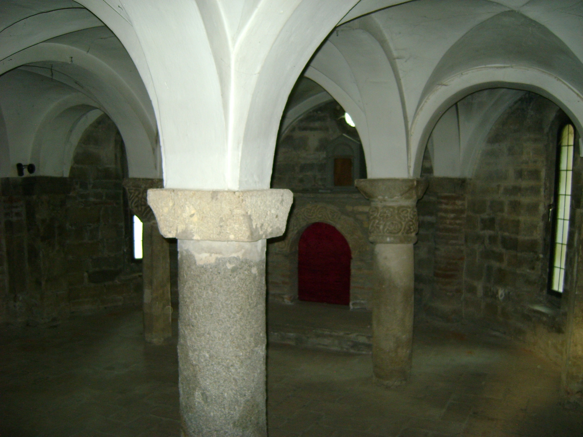 The crypt of the church of San Donato in Polenta